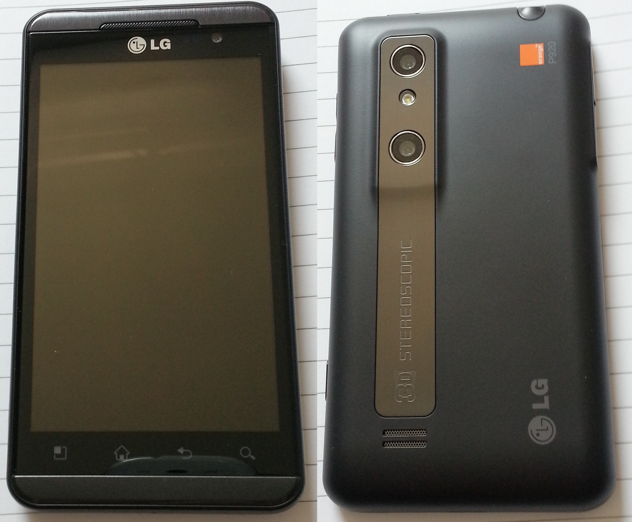 A photo of an LG Optimus 3D intended for use in the LG Optimus 3D article. I believe this photo is useful because there are no actual photos of the phone, just renderings. Example has a replacement battery cover with Orange Network branding and is the GSM version. I created this photo myself using a Samsung Galaxy S3 (GT-I9300)